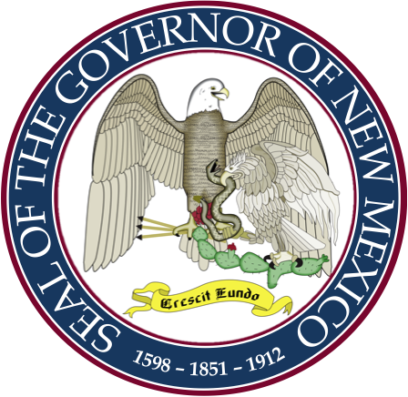 Seal of the Governor of New Mexico